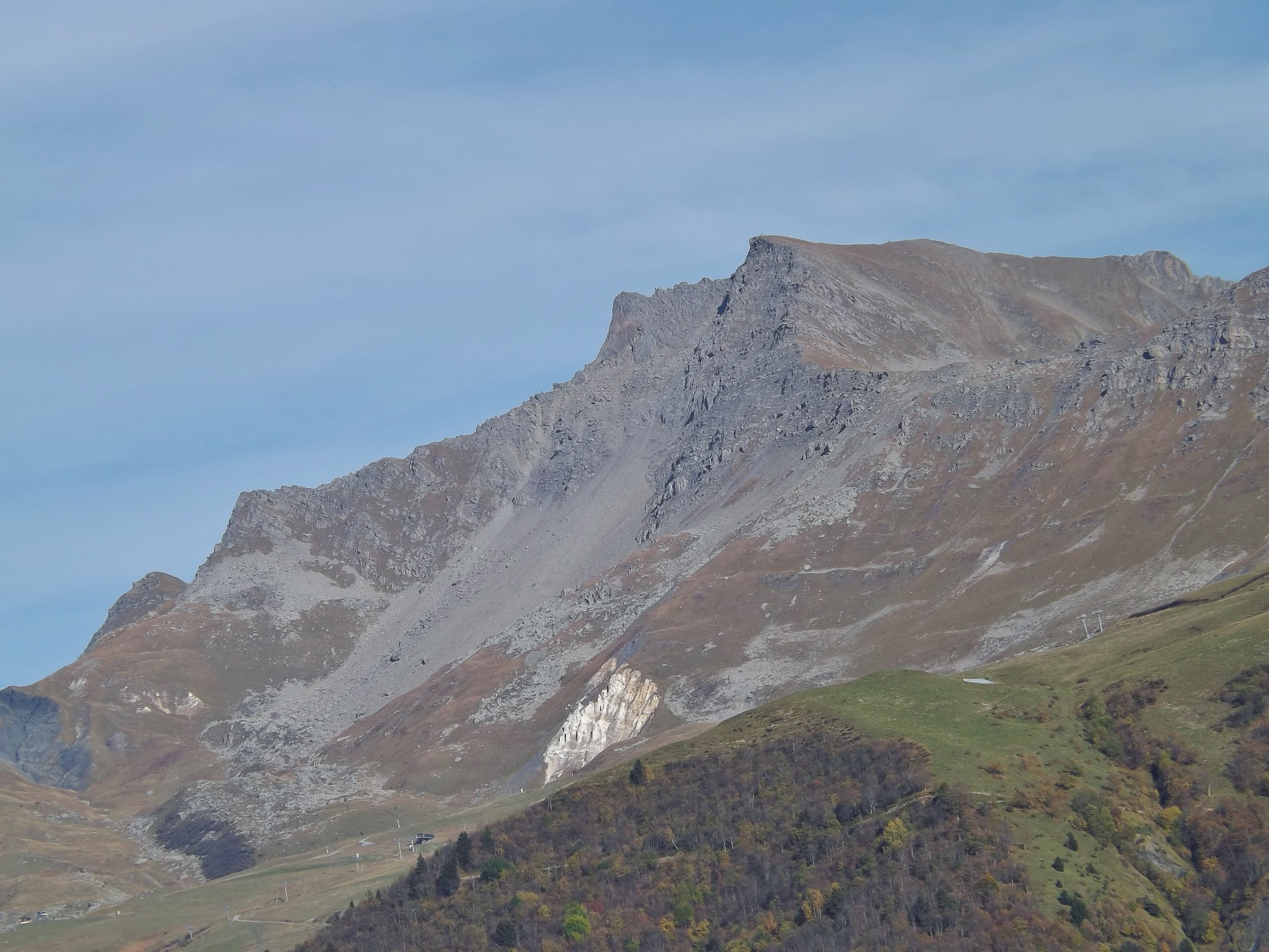 Sight of the Cheval Noir mount (2,832 meters high), from Montgellafrey, in Savoie, France.